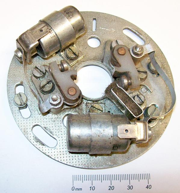 breaker mounting plate of German Trabant car. Plate has two breakers, each for one cylinder, oiler and condensors